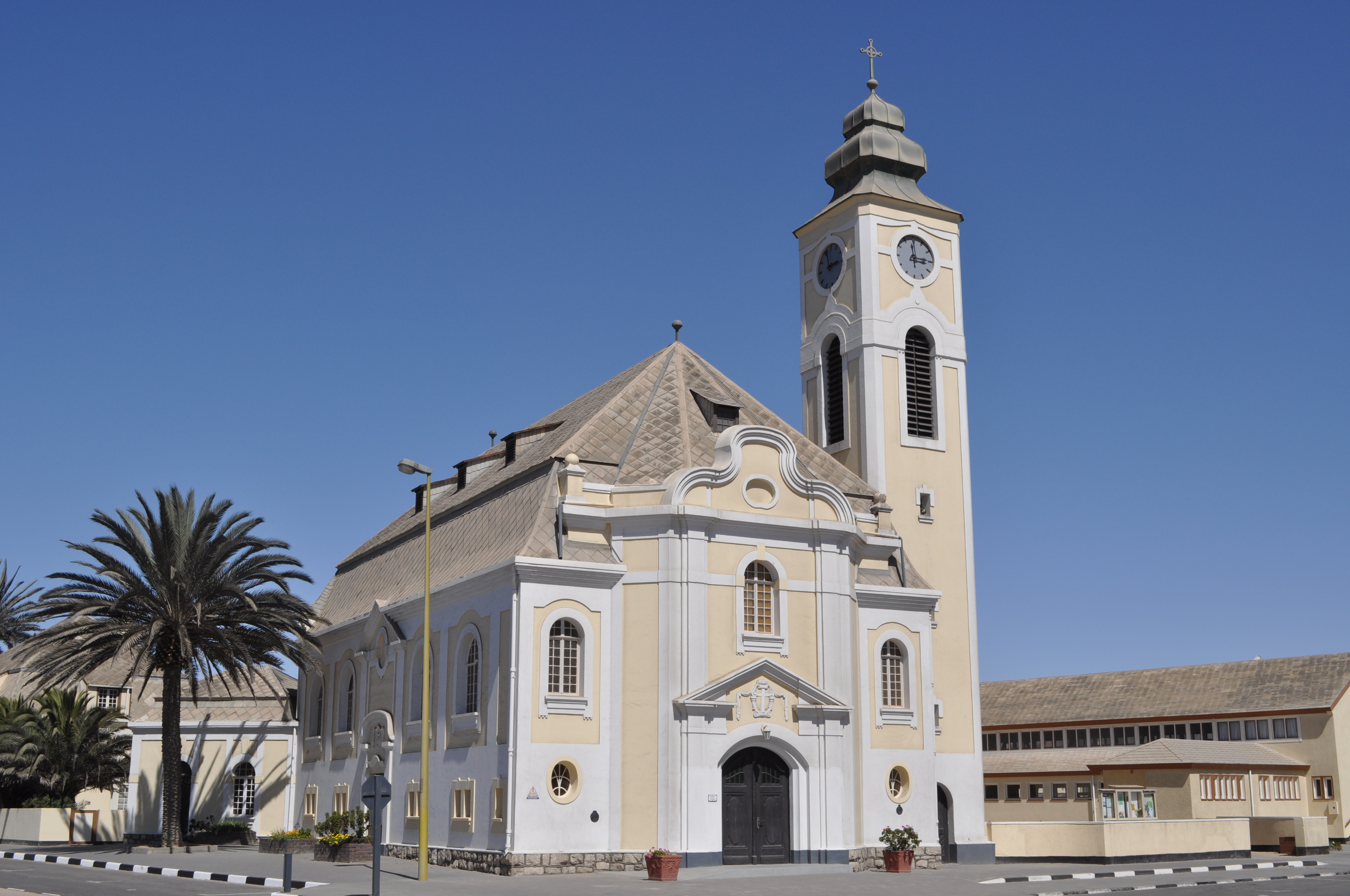 German Evangelical Lutheran Church in Swakopmund, Namibia (October 2010).